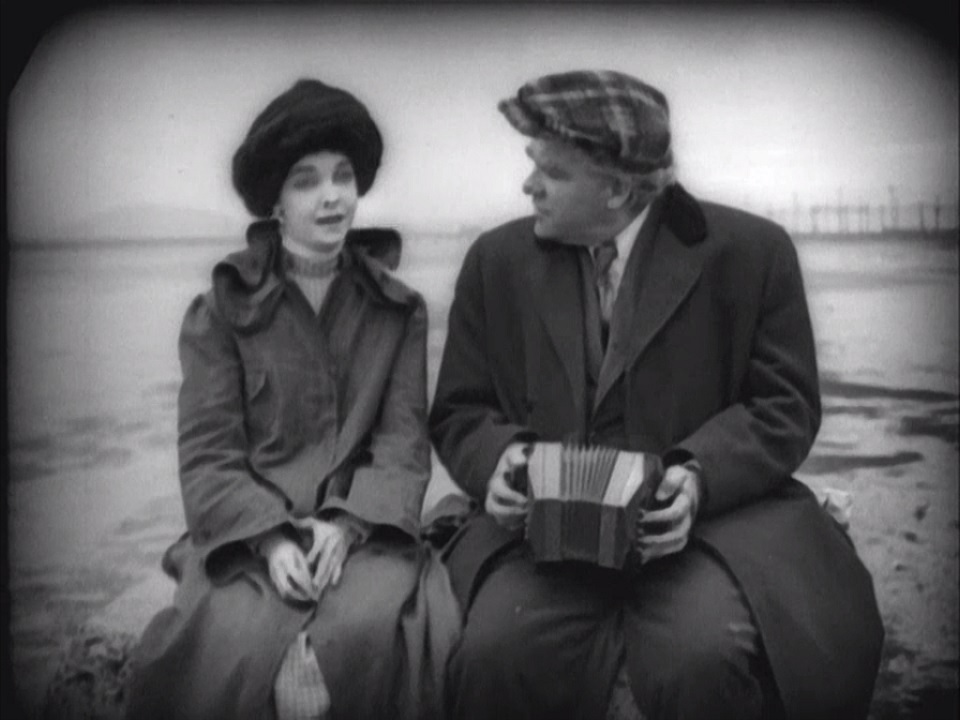 Scenography for the movie Greed (1924); ZaSu Pitts and Gibson Gowland.